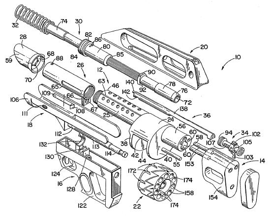 Pancor Jackhammer exploded parts diagram from the original patent